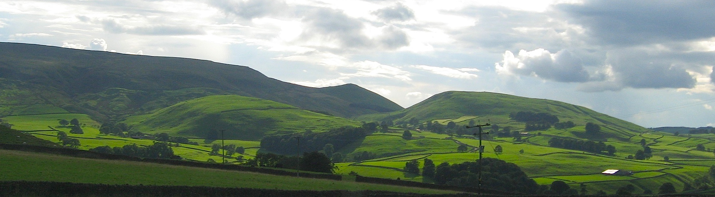 View of three reef knolls, North Yorkshire